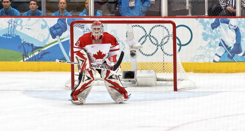 Canada goaltender Martin Brodeur during a break in the action against Switzerland during the 2010 Winter Olympics